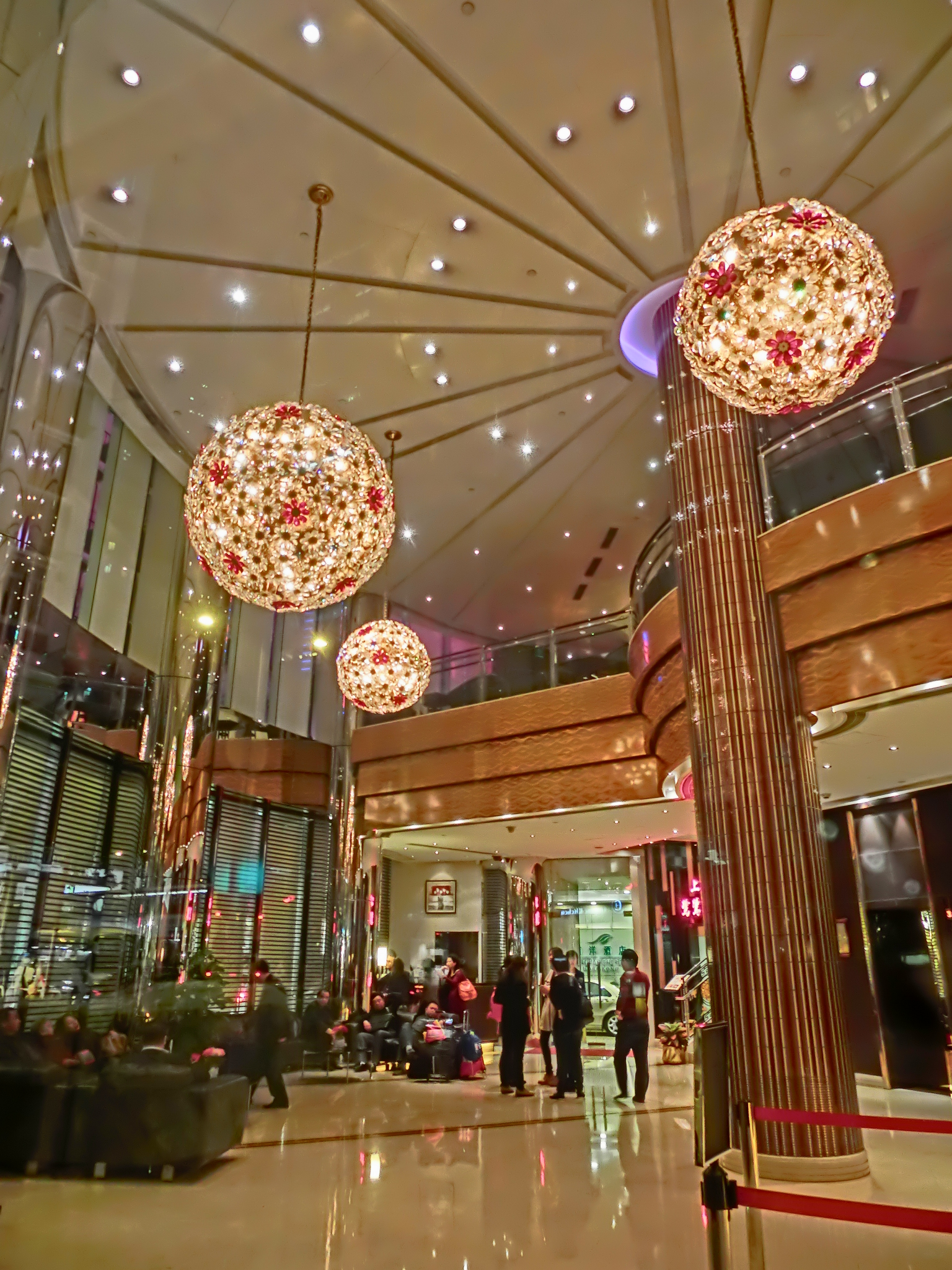 灣仔 南洋酒店 - 摩理臣山道23號 霎西街, Sharp Street West, No.23 Morrison Hill Road, Wan Chai, Hong Kong